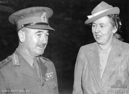 AWM Caption: c.1944. Informal portrait of Lieutenant General Sir Leslie Morshead in uniform and Lady Morshead.